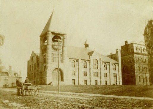 Early photo the Old Gym (Washington & Jefferson College) at Washington & Jefferson College.